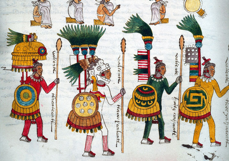 Four Aztec warriors in drawn in folio 67 of Codex Mendoza